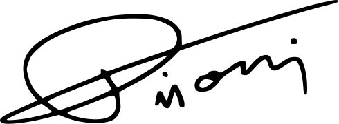 Signature of Didier Pironi